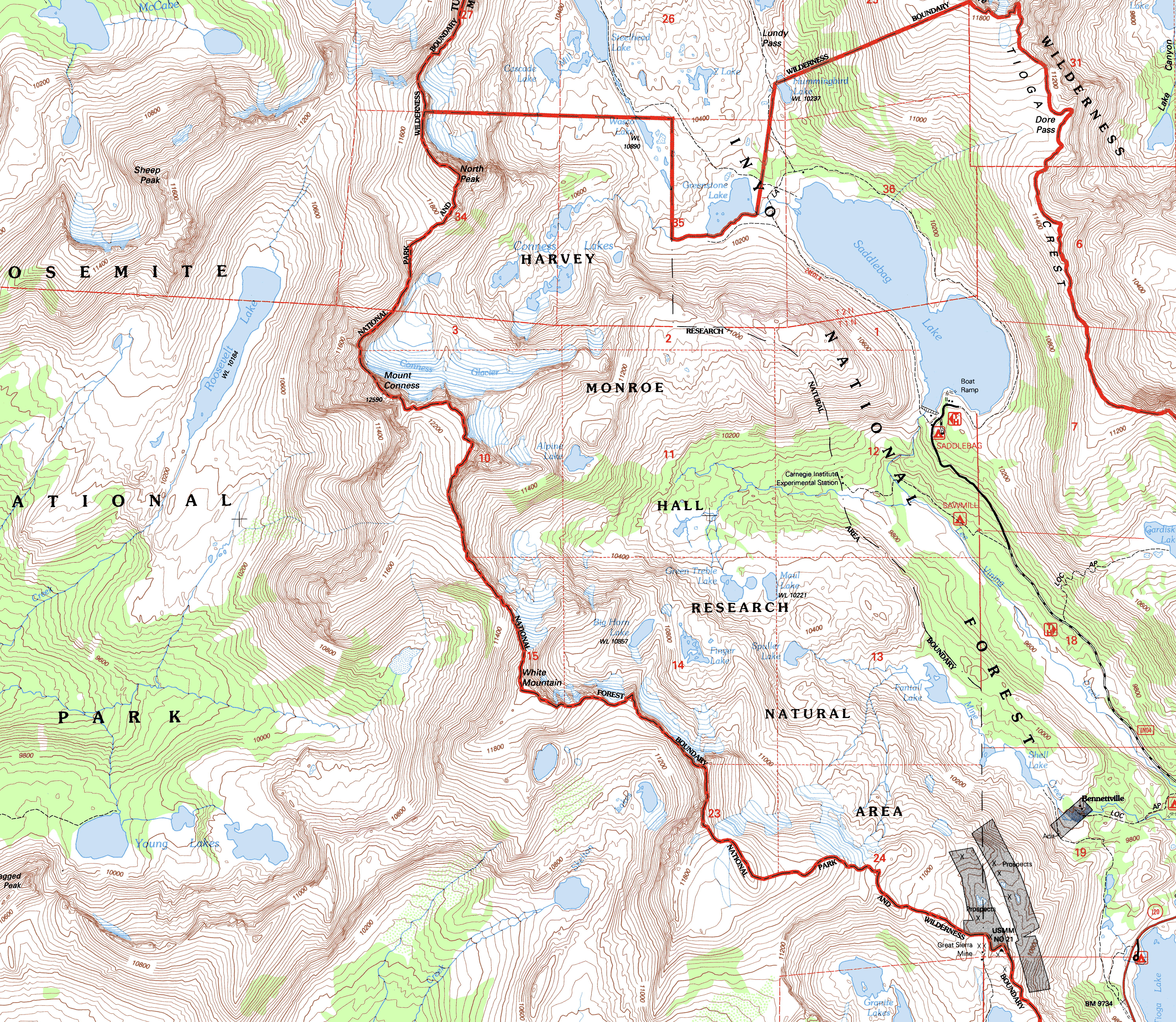 Topographic map of the Mount Conness area and Hoover Wilderness Area, eastern-central Sierra Nevada, California.